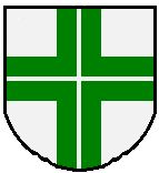 An heraldic cross.